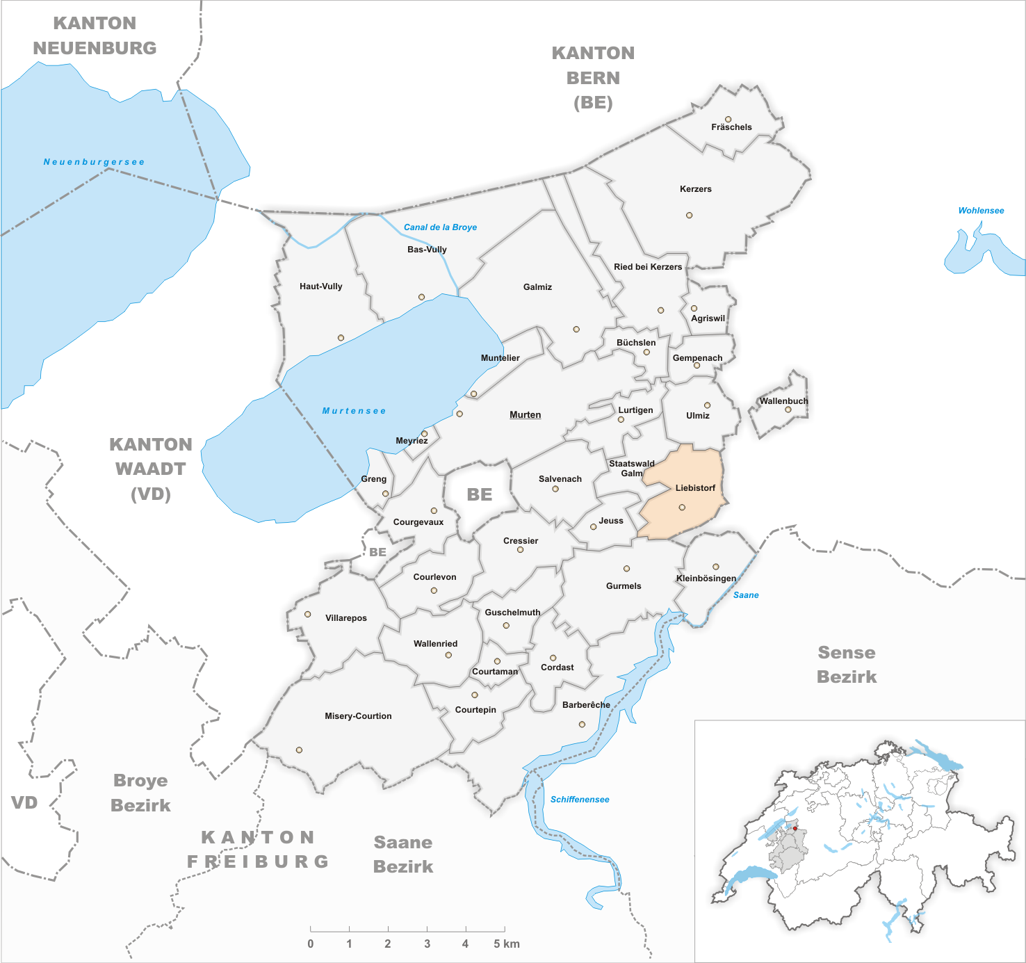 Municipality Liebistorf Artist: Tschubby